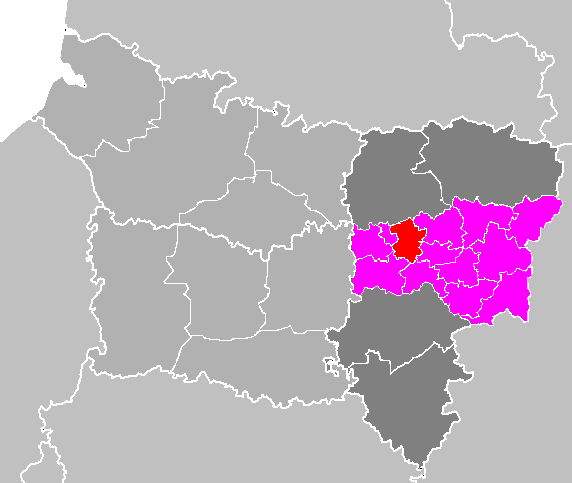 Maps of arrondissements and cantons of France: Arrondissement de Laon